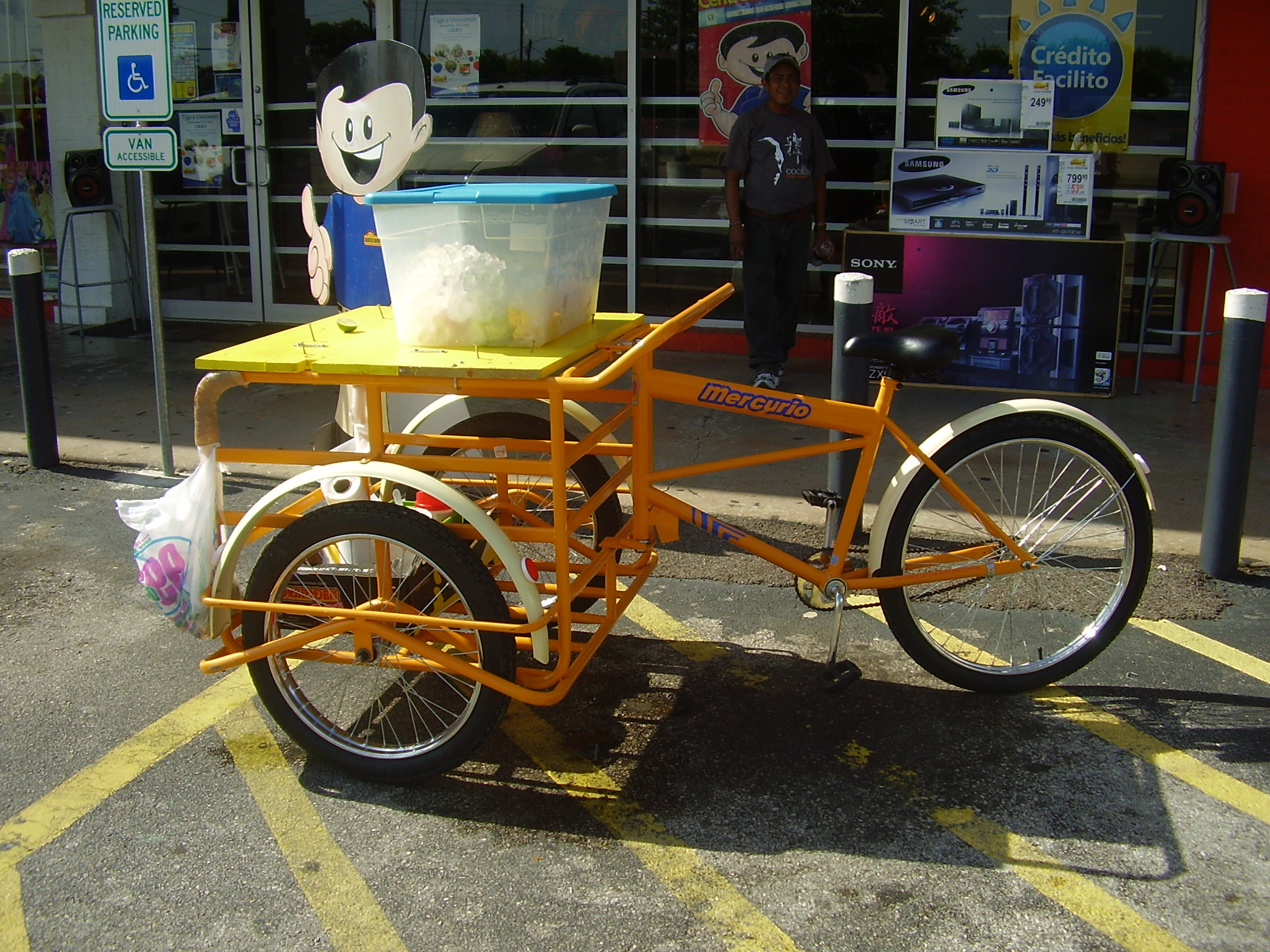 A paletero cart, with the paletero in the background